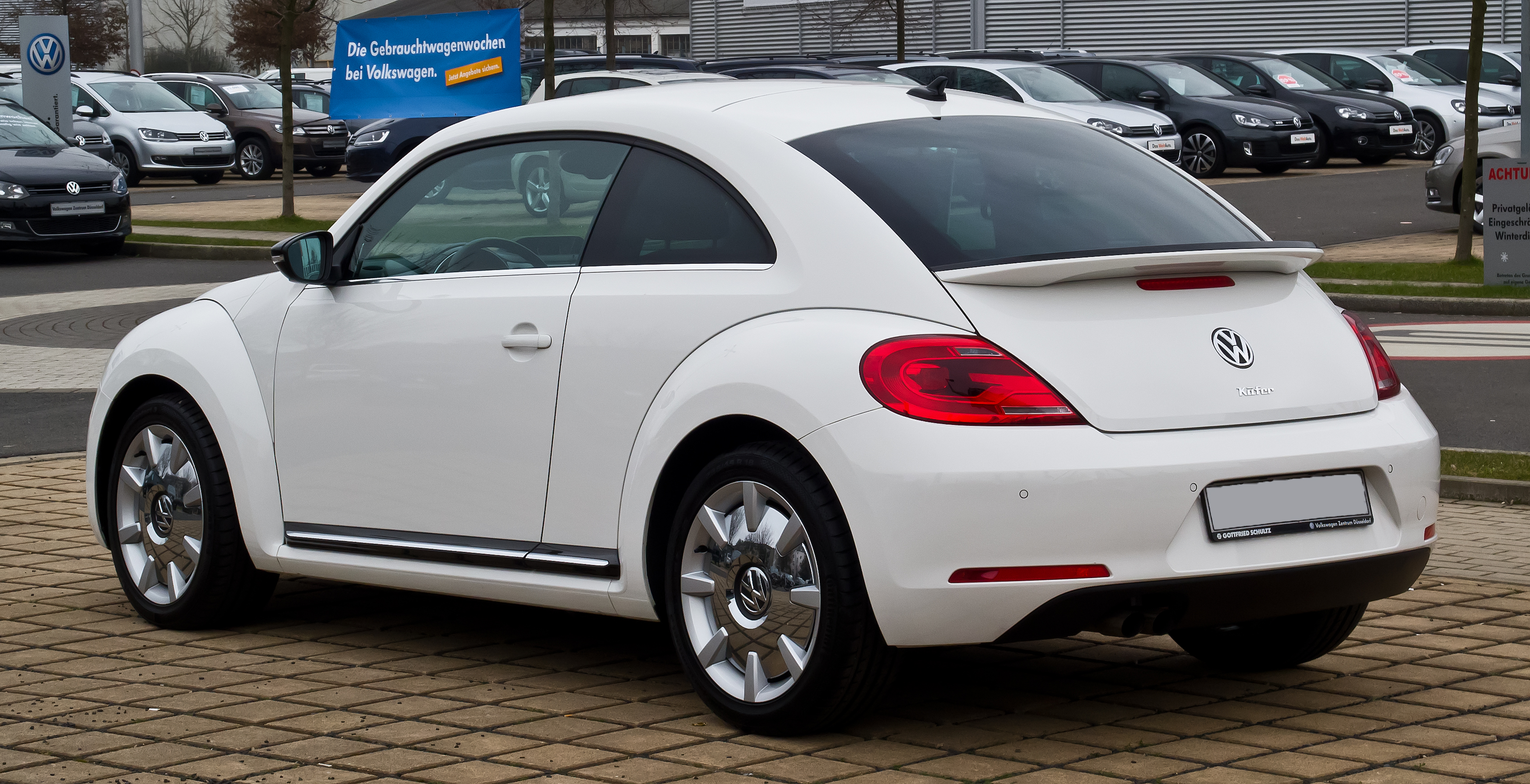 VW Beetle 1.4 TSI Sport